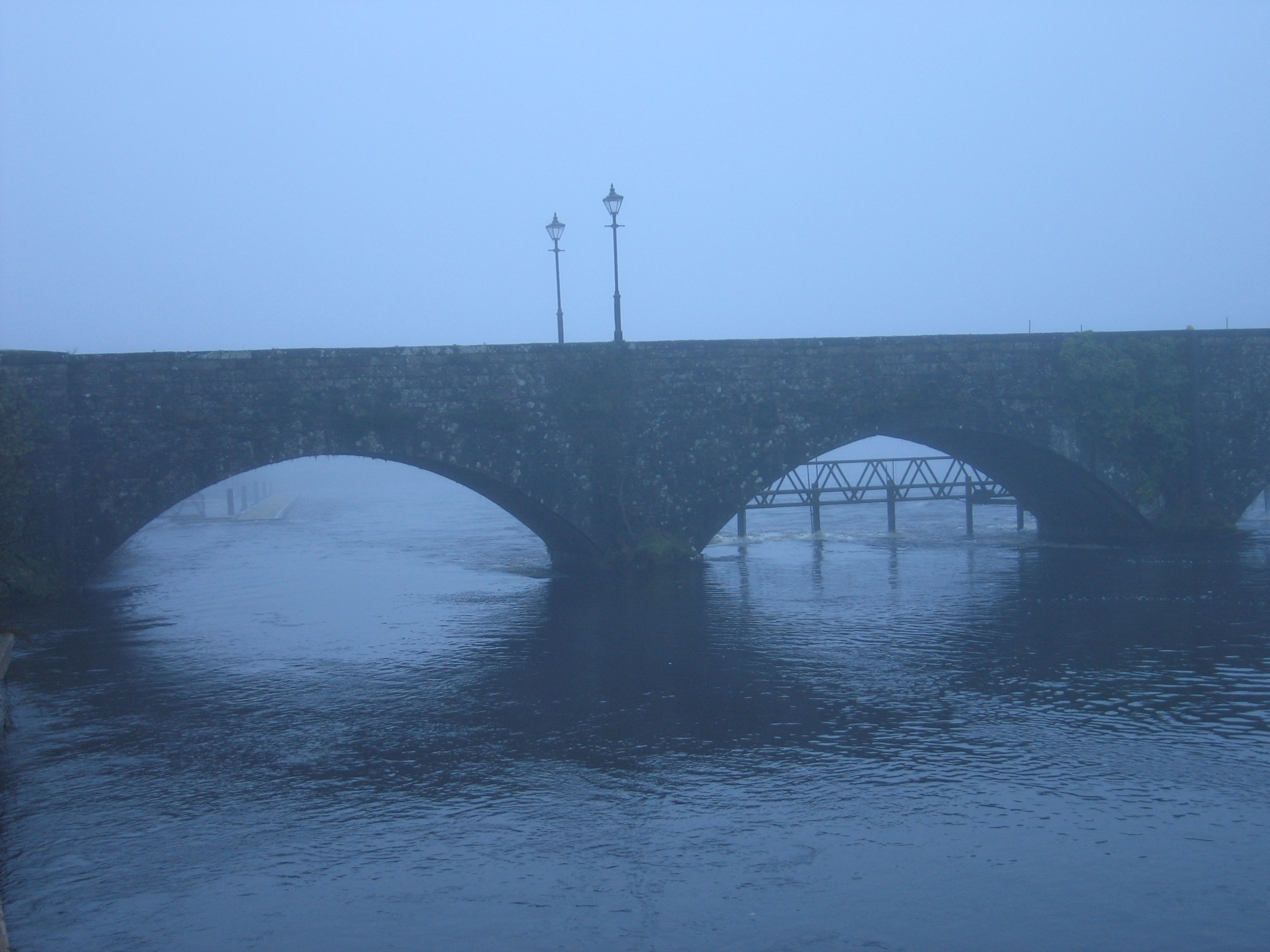 The Killaloe-Ballina Bridge over the River Shannon